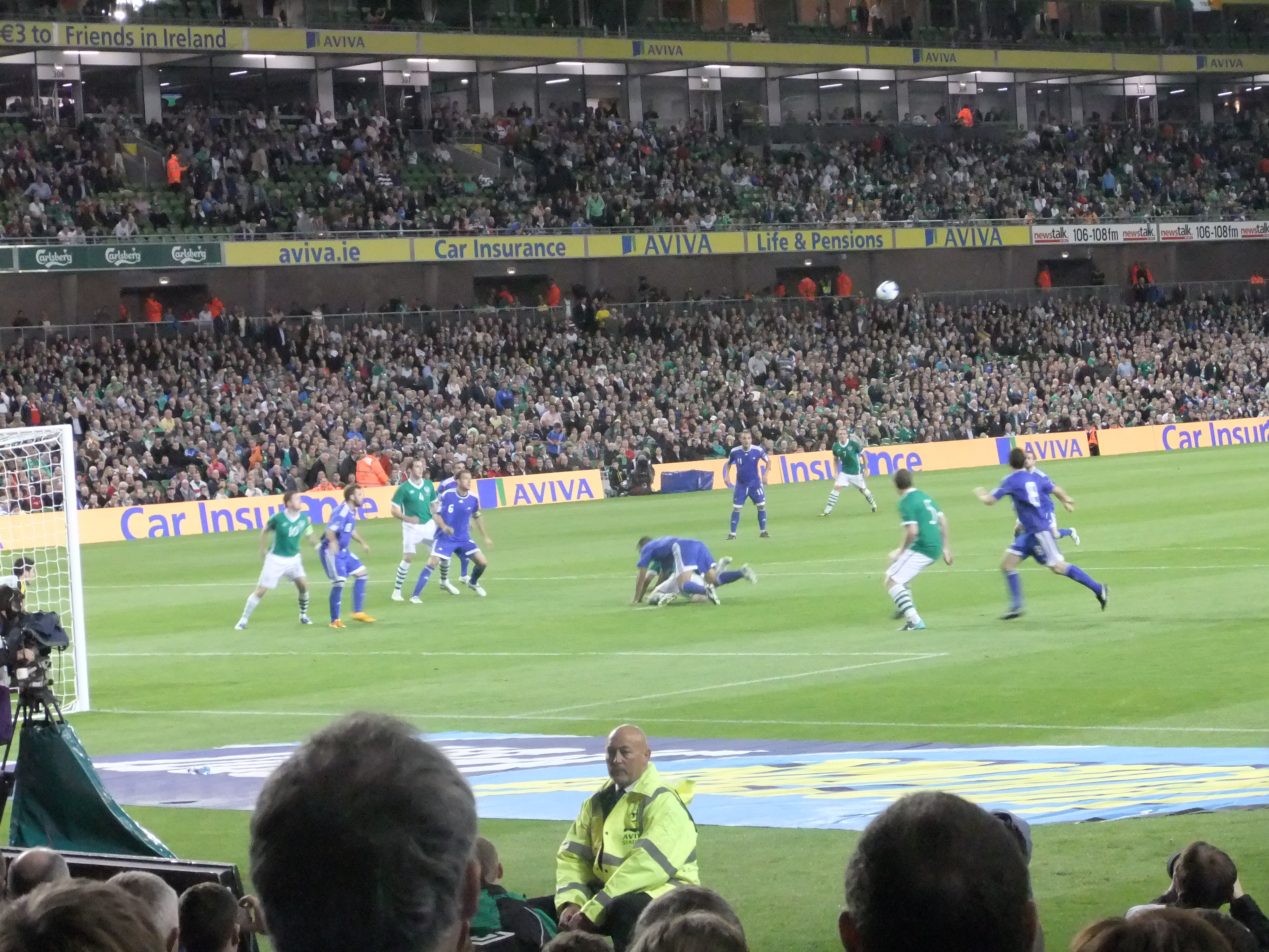 Aviva Stadium. Ireland v Andorra Sept 7th 2010